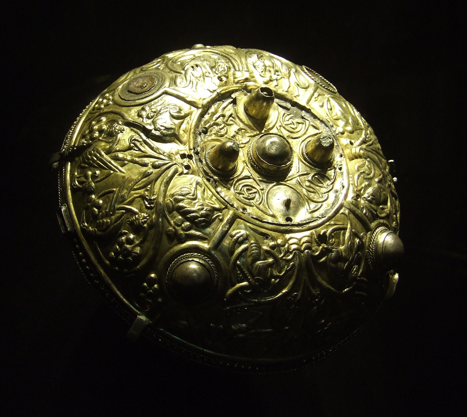 The Ormside bowl in the British Museum. It is a silver and glass double bowl dating from the AD 750-800 which was found in 1823 buried next to a Viking warrior in Ormside, Cumbria